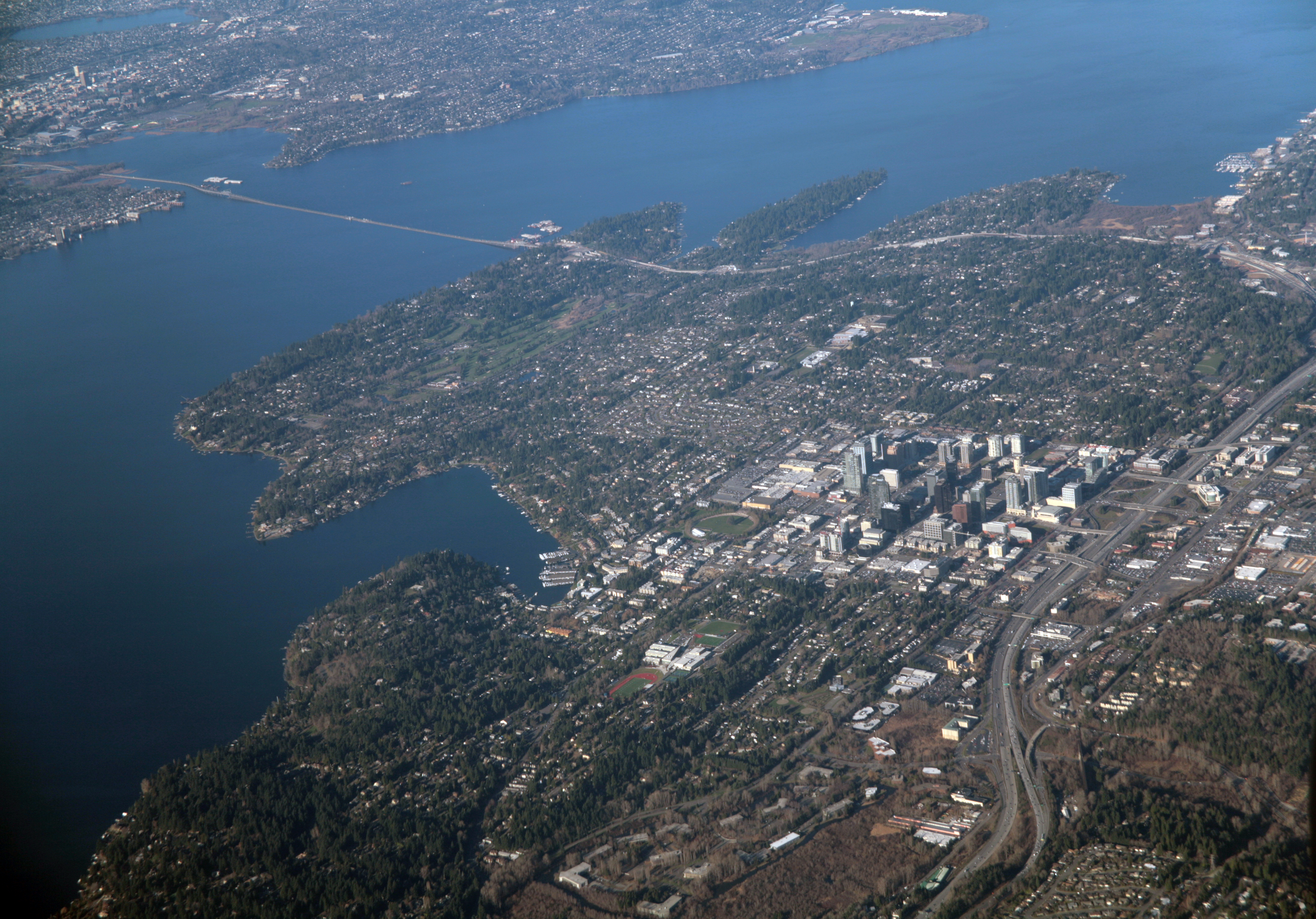 Downtown Bellevue, Washington